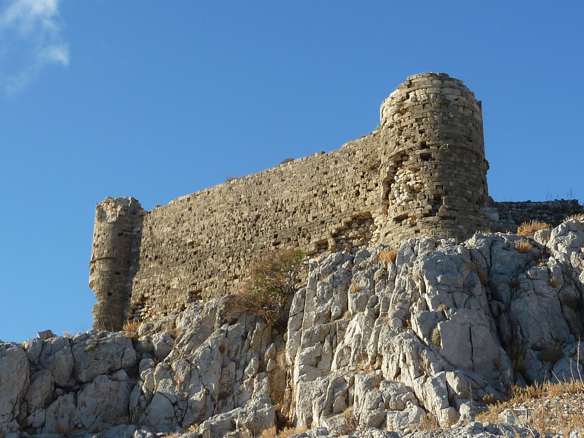 Charaki, Feraklos Castle